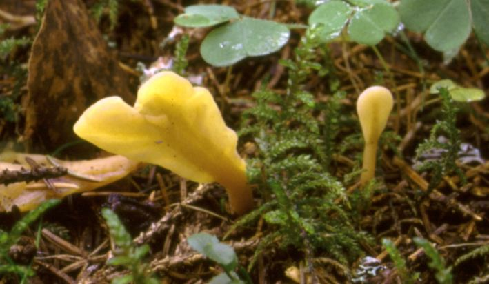 The "yellow earth tongue" fungus, species Spathularia flavidaFr. Photographed in